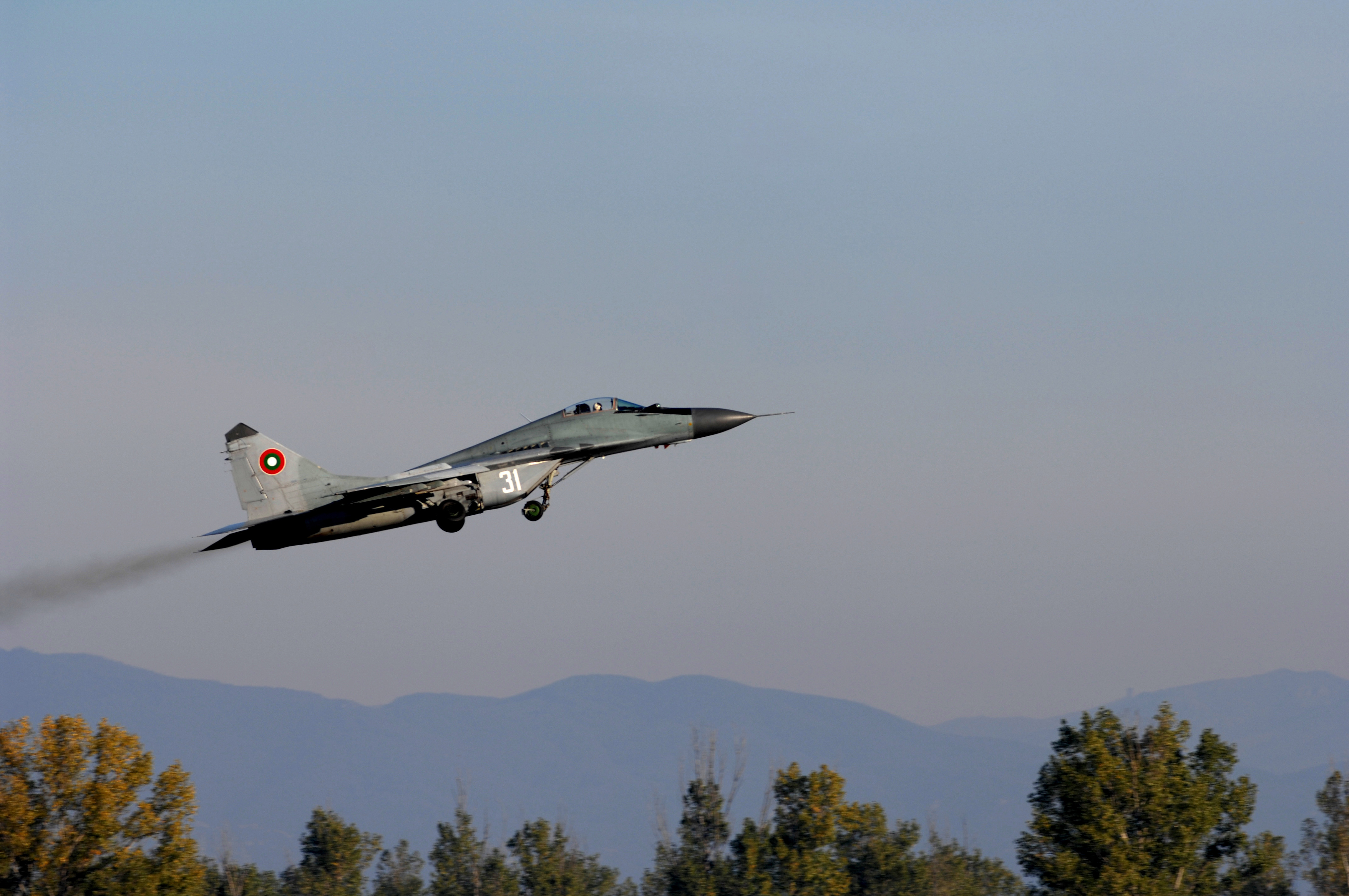 A MiG-29 aircraft takes off for a combat training mission as part of exercise Rodopi Javelin 2007 at Graf Ignattevo Airfield, Bulgaria, Oct. 18, 2007. Over 250 U.S. Air Force Airmen from Aviano Air Base, Italy, are joining with the Bulgarian air force to train together during the exercise. (U.S. Air Force photo by Staff Sgt. Michael R. Holzworth) (Released)